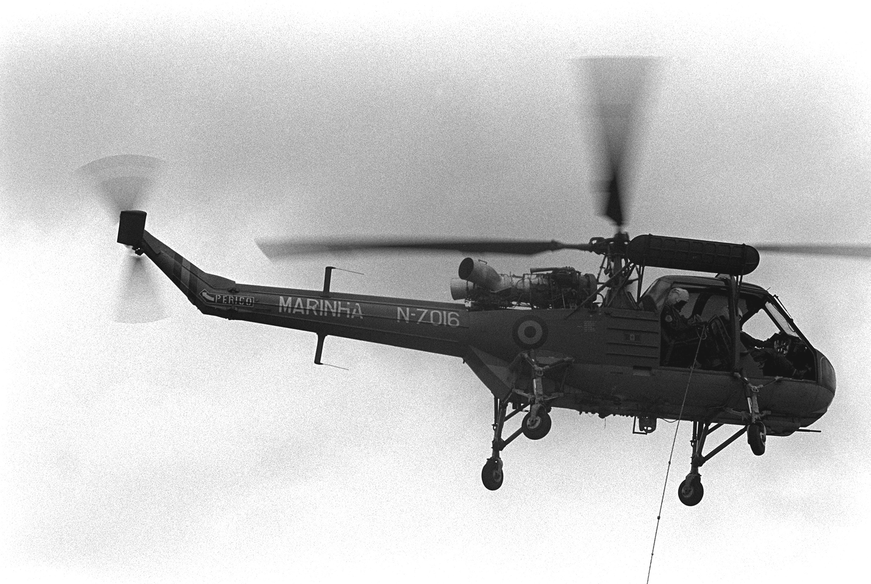 A right side view of a Brazilian helicopter participating in exercise Unitas XX.